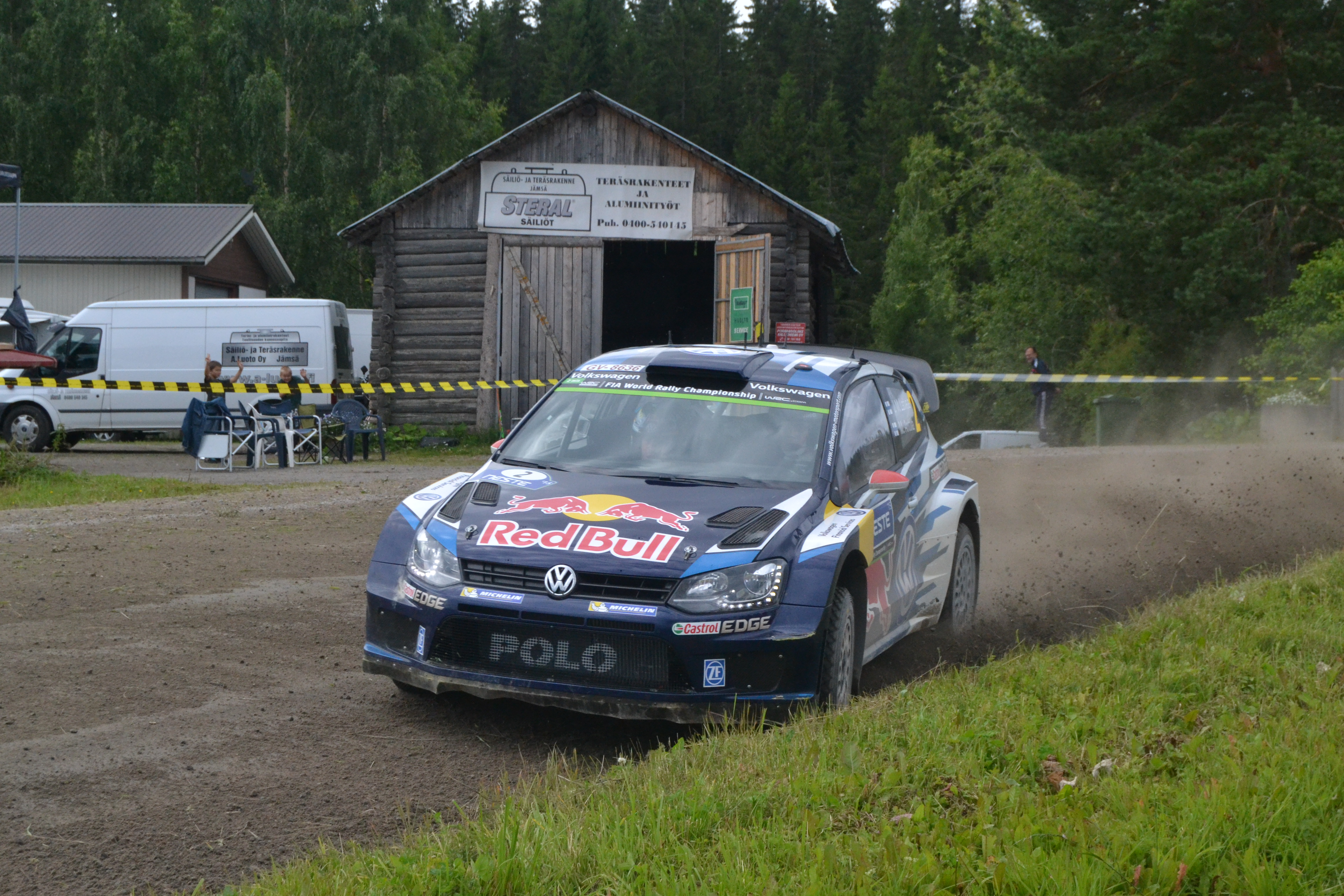 Jari-Matti Latvala at 1st Ouninpohja stage at Rally Finland 2015